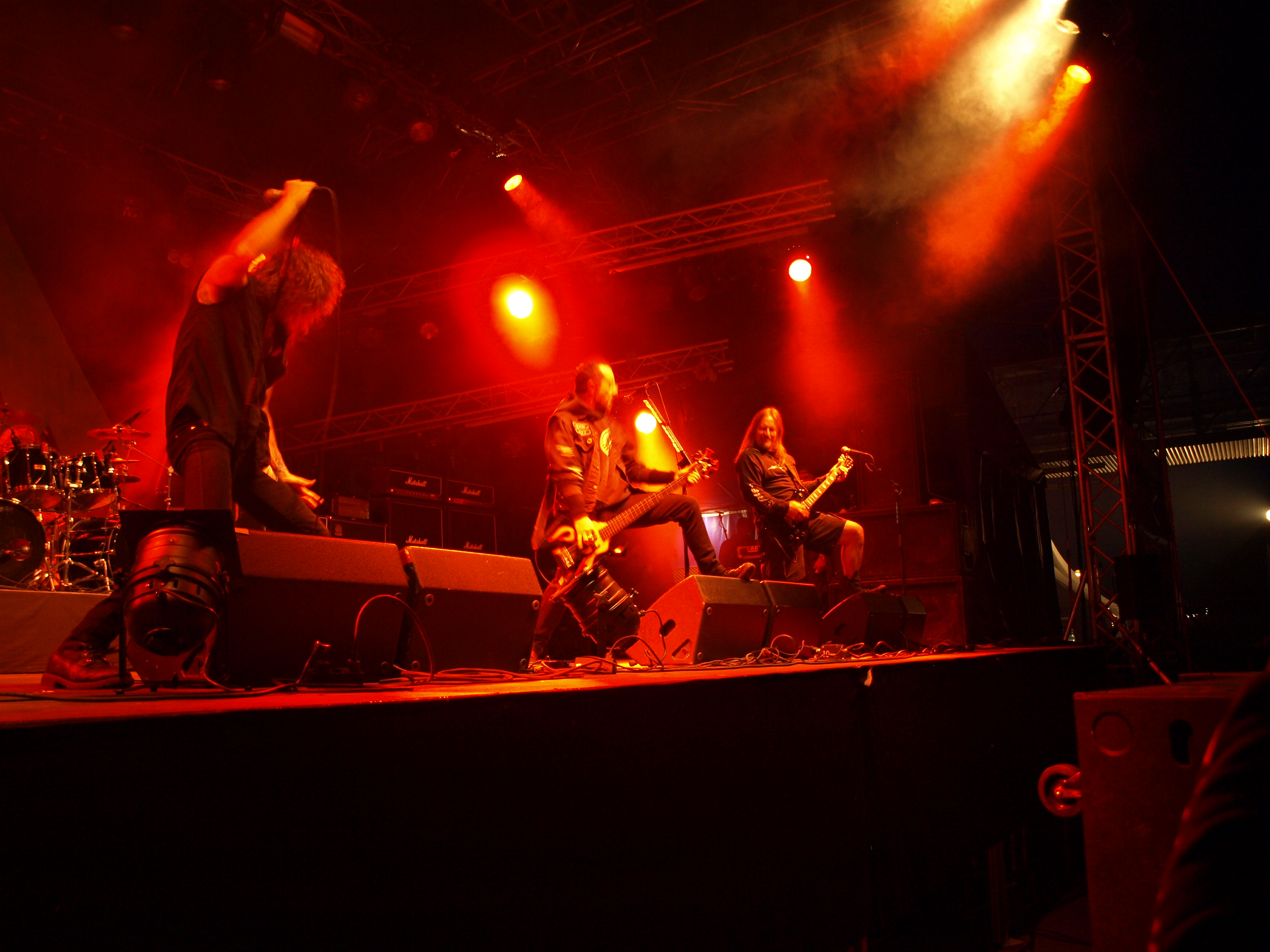 American thrash metal band Overkill live at Jalometalli 2008 in Oulu.